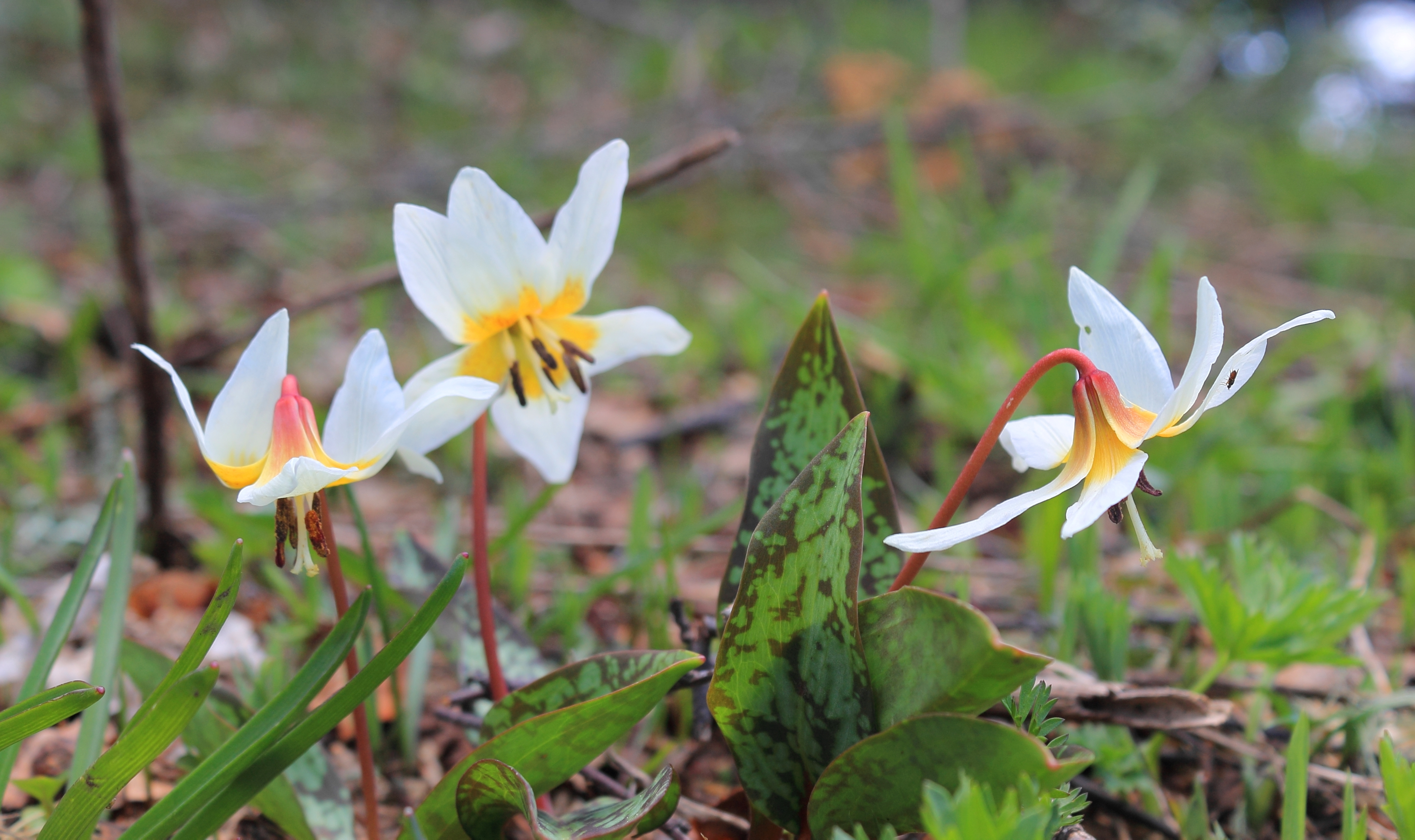 Erythronium caucasicum Woronow. Subalpine-Alpine Zone on Mount Tabunnaya slopes in vicinities of Krasnaya Polyana, Sochi. This image is related to the protected area of Russia number 2300430